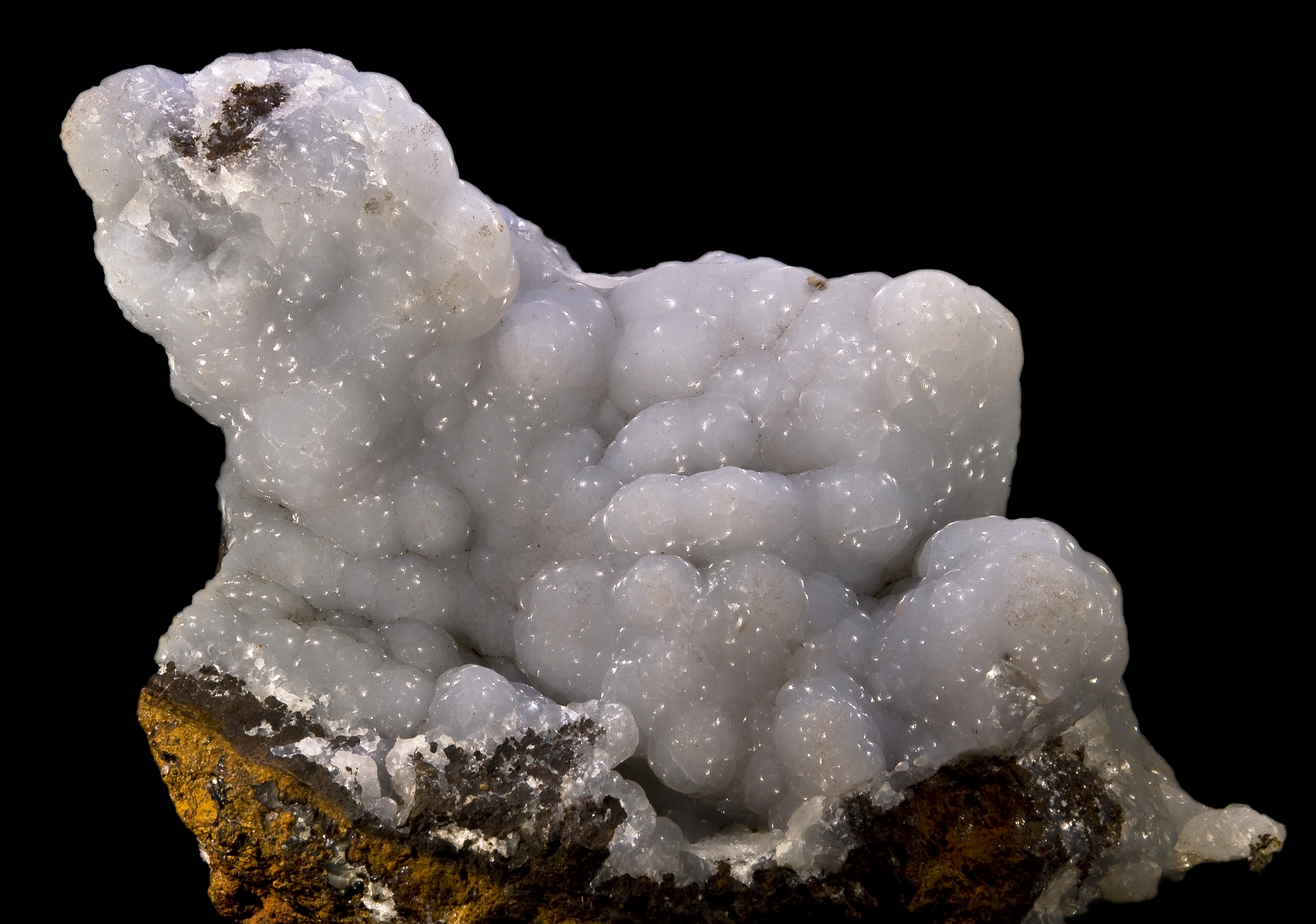 Smithsonite Locality : Kamariza Mines, Agios Konstantinos [St Constantine] (Kamariza), Lavrion District Mines, Laurion District, Attikí Prefecture, Greece Size : (14x9cm)